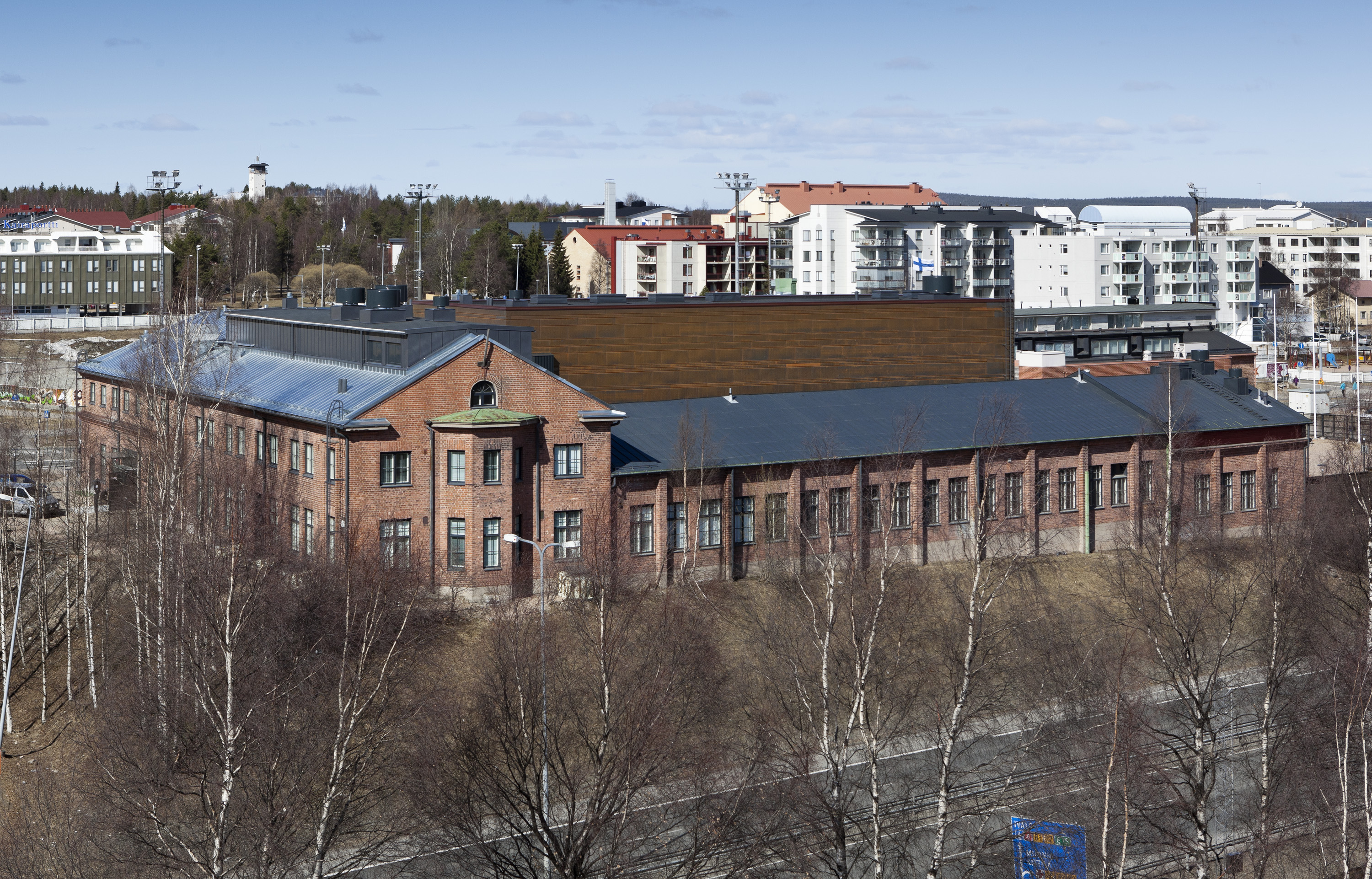 Culture House Korundi, Rovaniemi